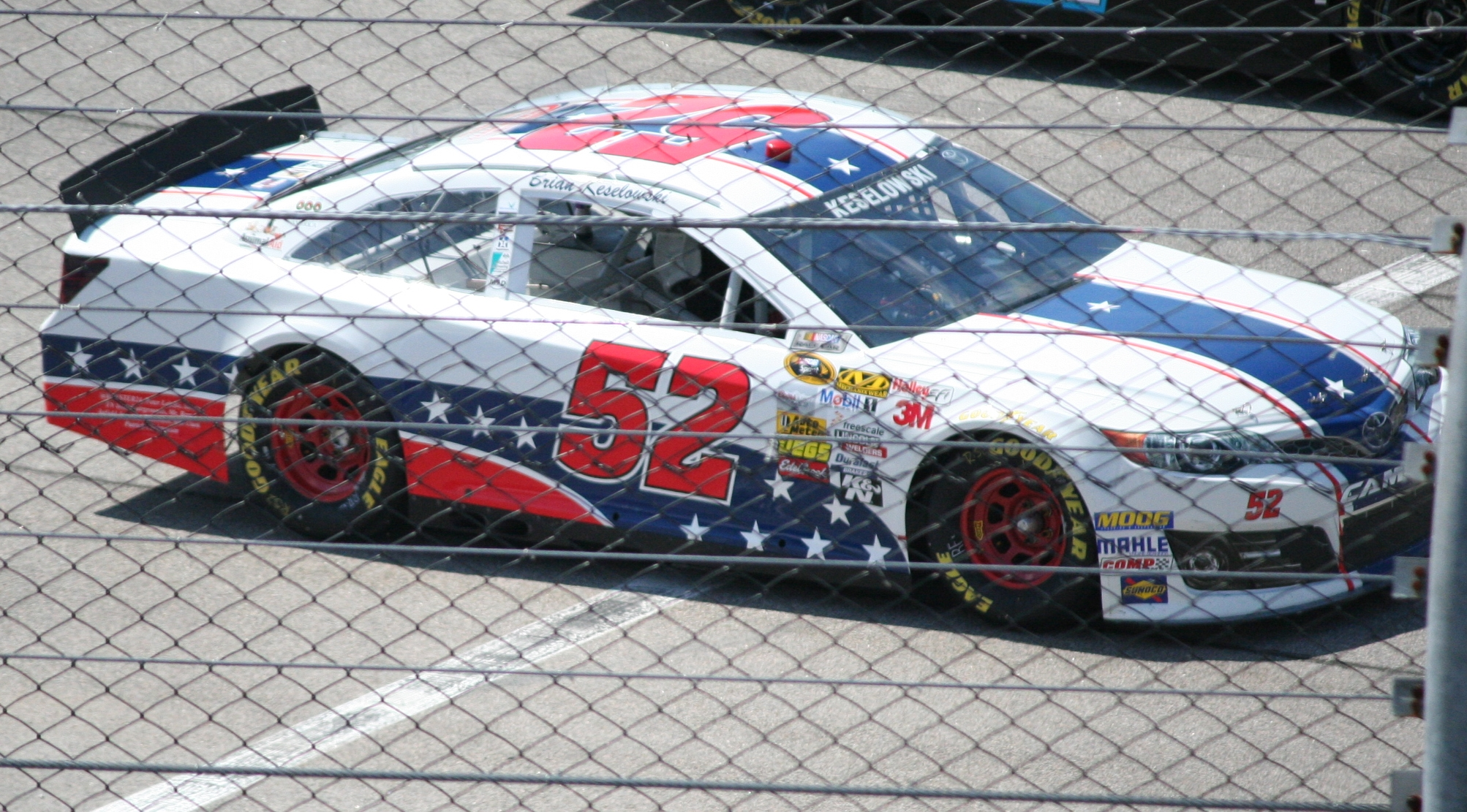 Brian Keselowski's No. 52 Toyota during practice for the NASCAR Sprint Cup Series Toyota Owners 400 at Richmond International Raceway, April 26 2013.